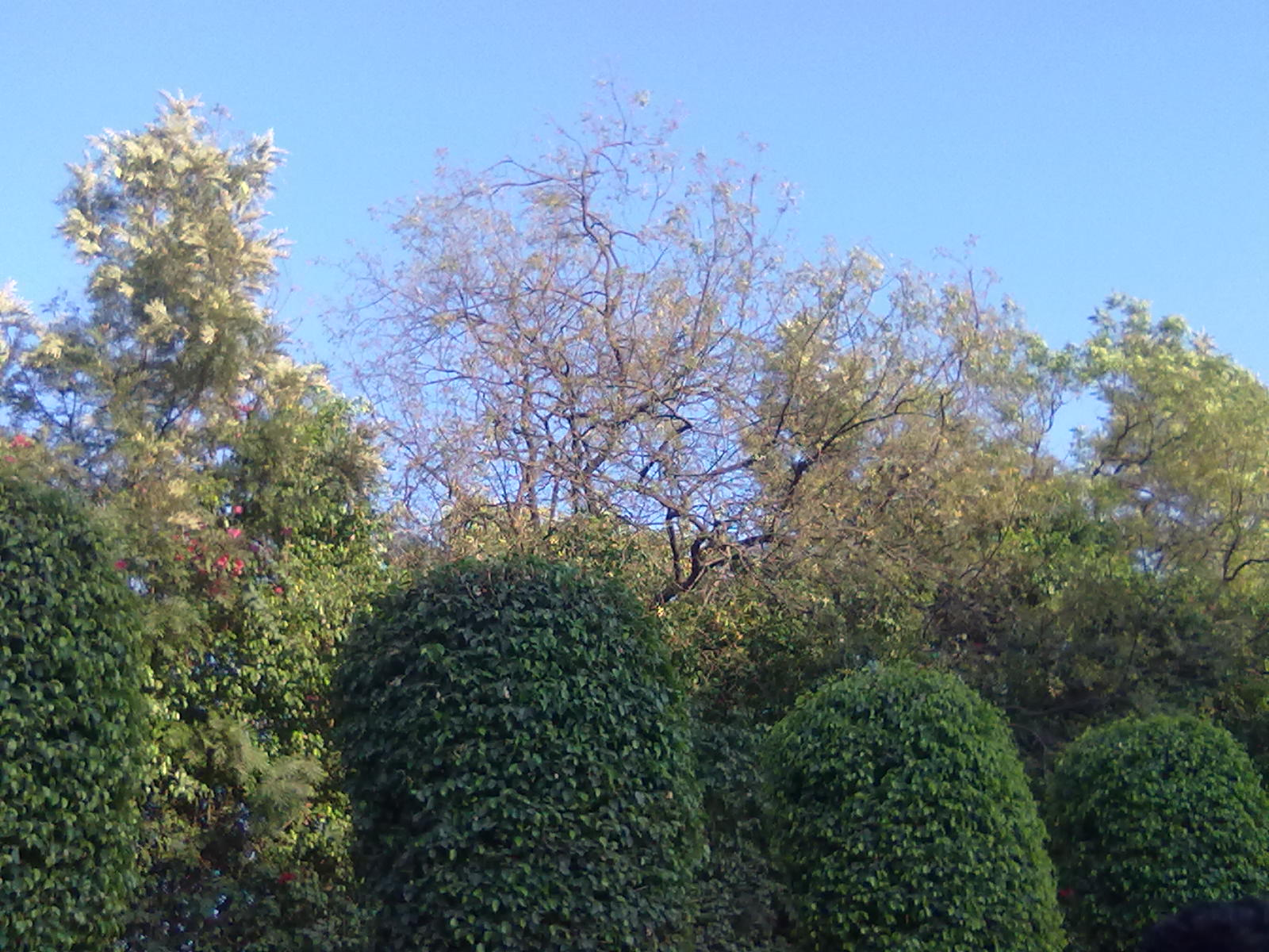 This image was clicked in from the lawn of Sinhgad institute kondhwa. this image depicts the beautiful flora and fauna maintained at this institute.